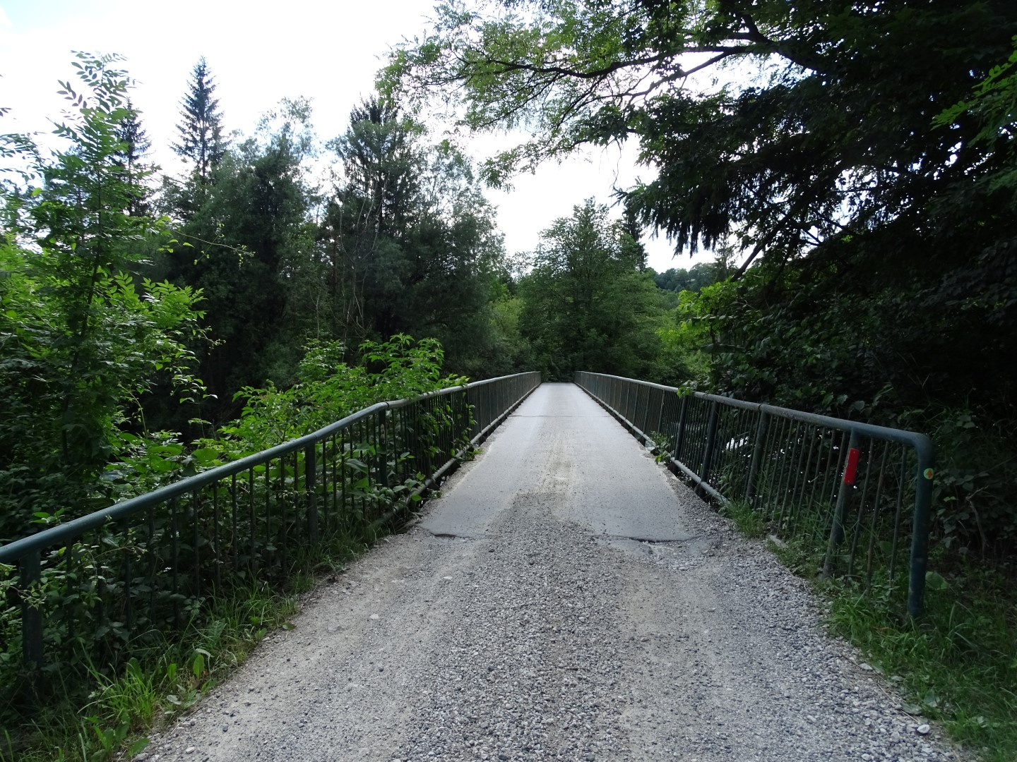 The bridge over the Sava Dolinka in Breg, Žirovnica.